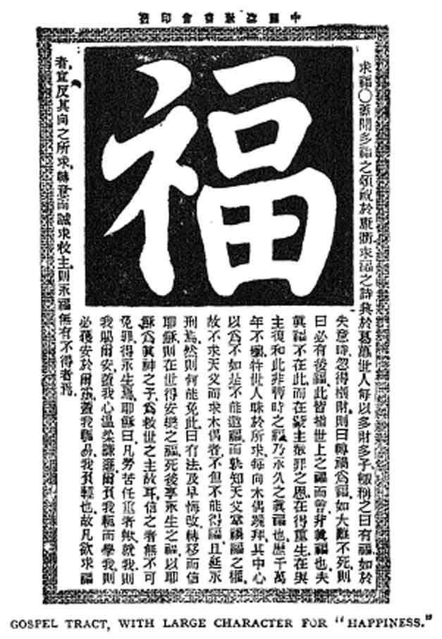 From: Guinness, M. Geraldine; The Story of The China Inland Mission Vol II; Morgan & Scott; London; 1900